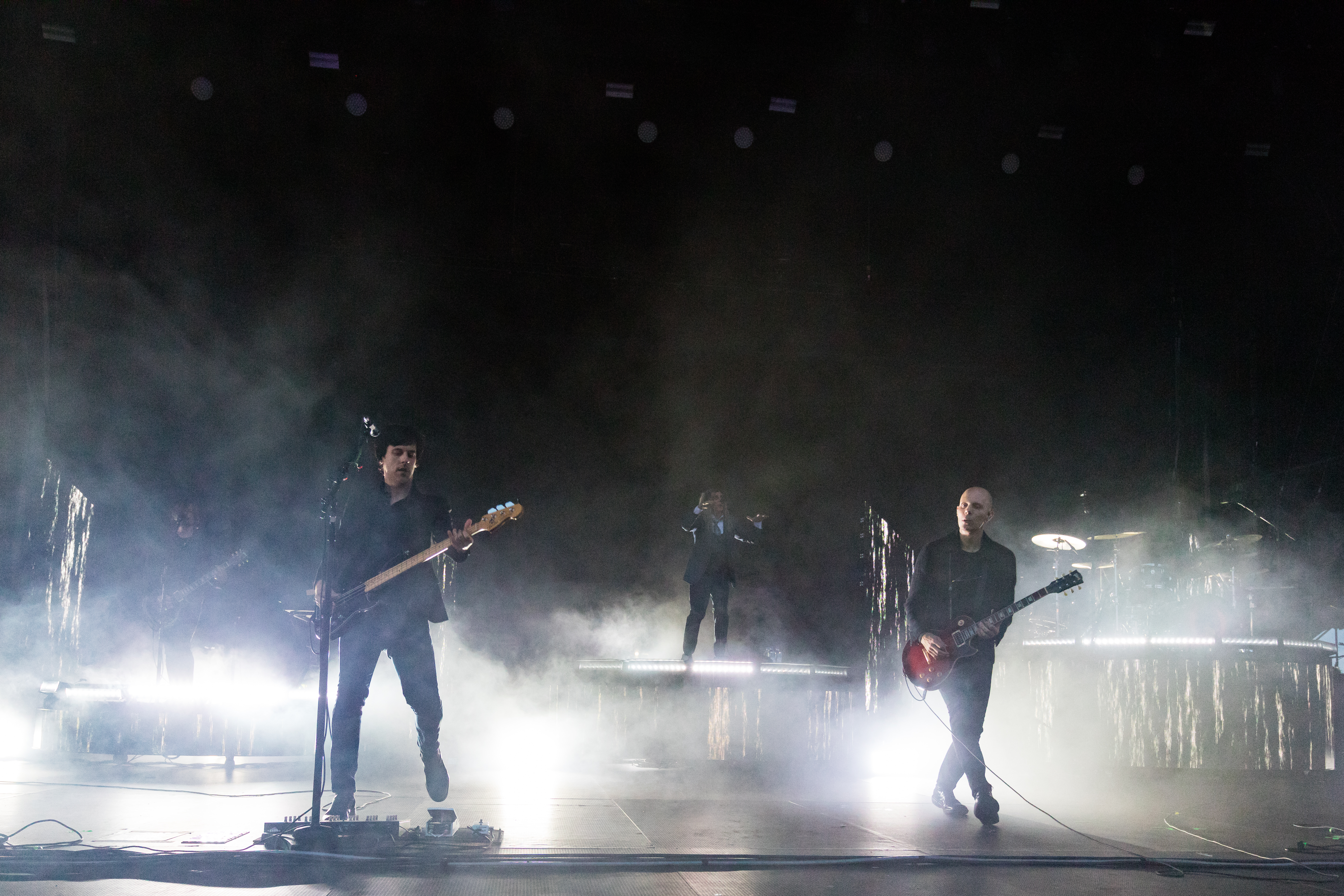 A Perfect Circle @ Rock am Ring 2018